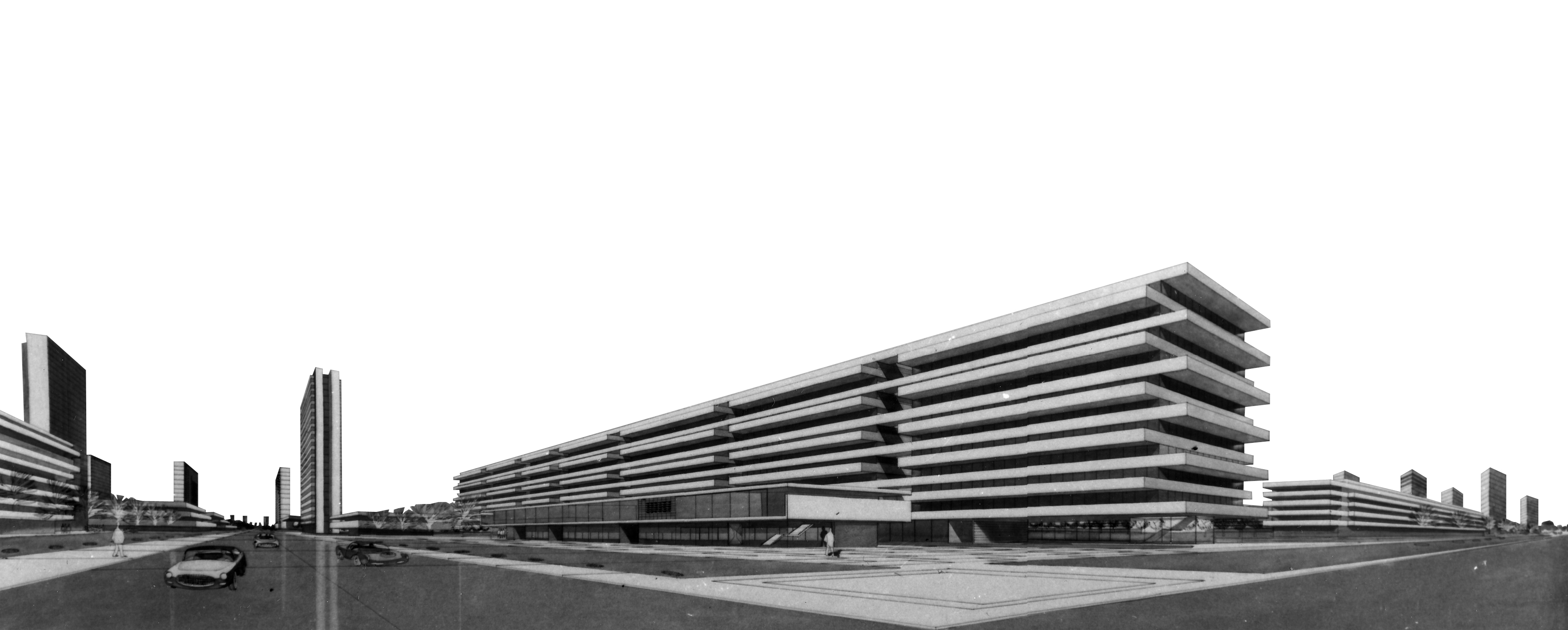 Mihailo Canak - Block 21 P+10